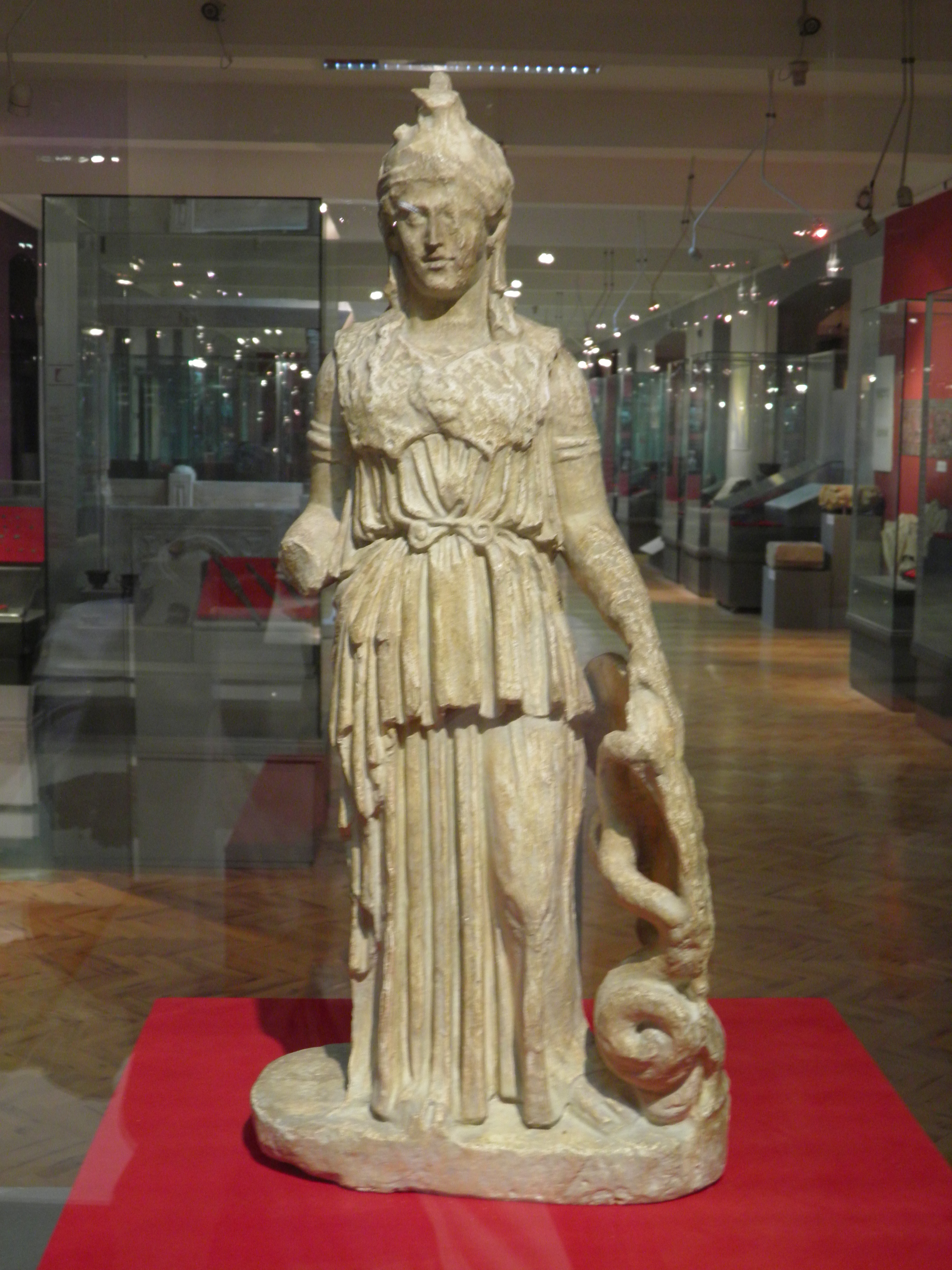 Archaeological Museum of Bitola, Republic of Macedonia Archaeological Museum of Bitola